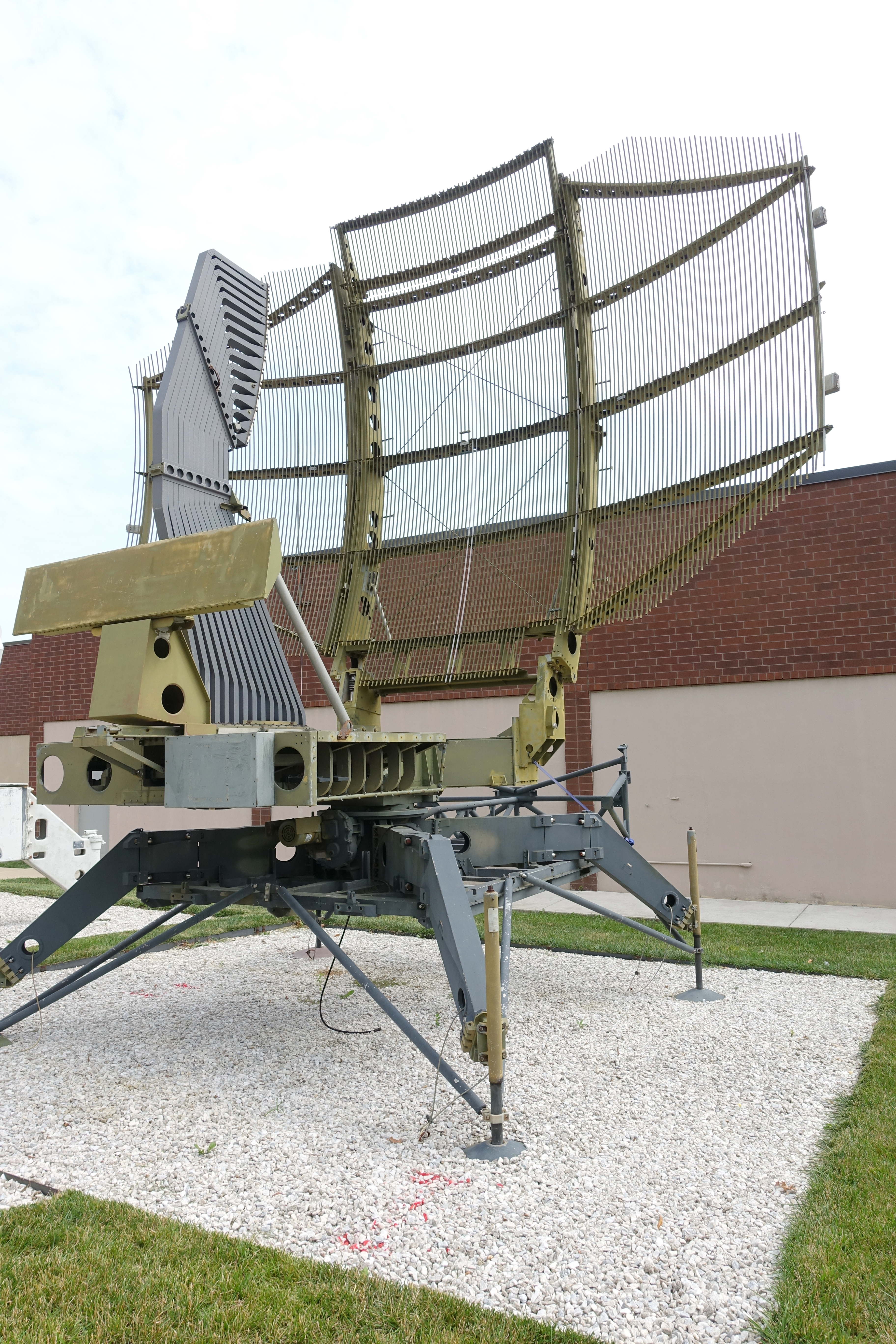 Exhibit in the National Electronics Museum, 1745 West Nursery Road, Linthicum, Maryland, USA. All items in this museum are unclassified. The museum permitted photography without restriction.